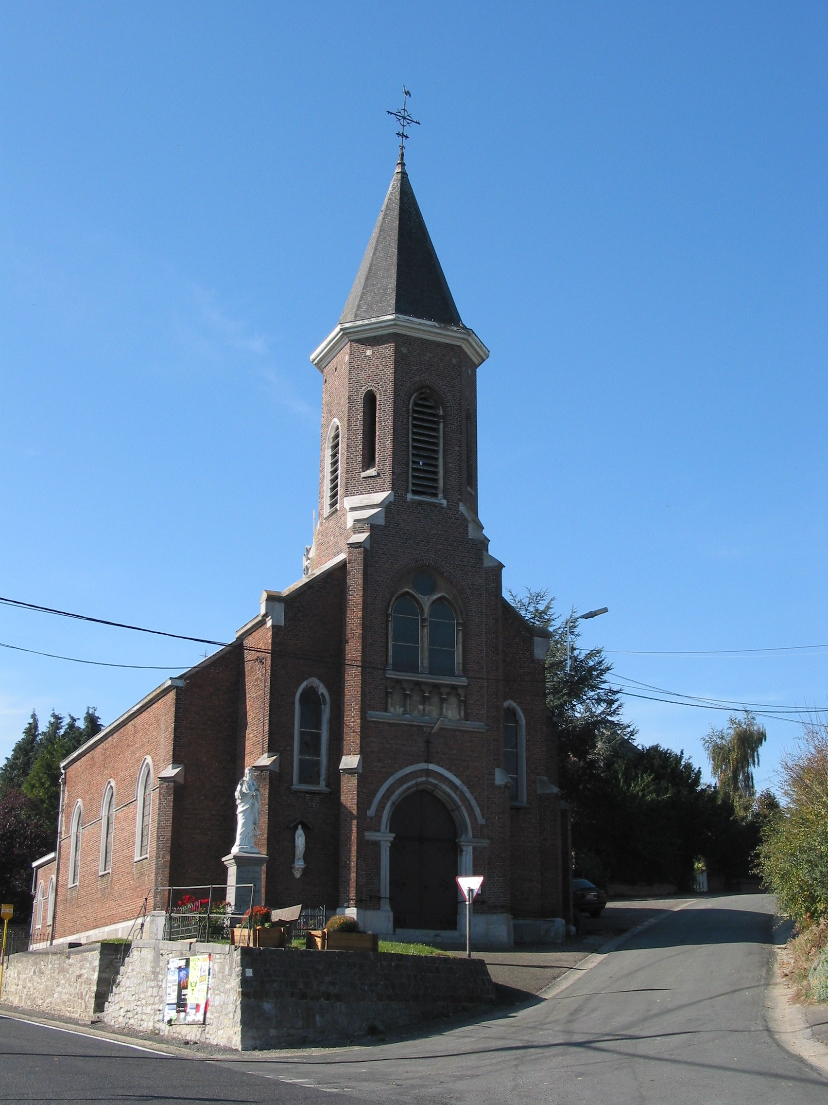 Lamontzée (Belgium), the St. Maurice church (1863 – Architect: J. L.Blandot-Grayet).